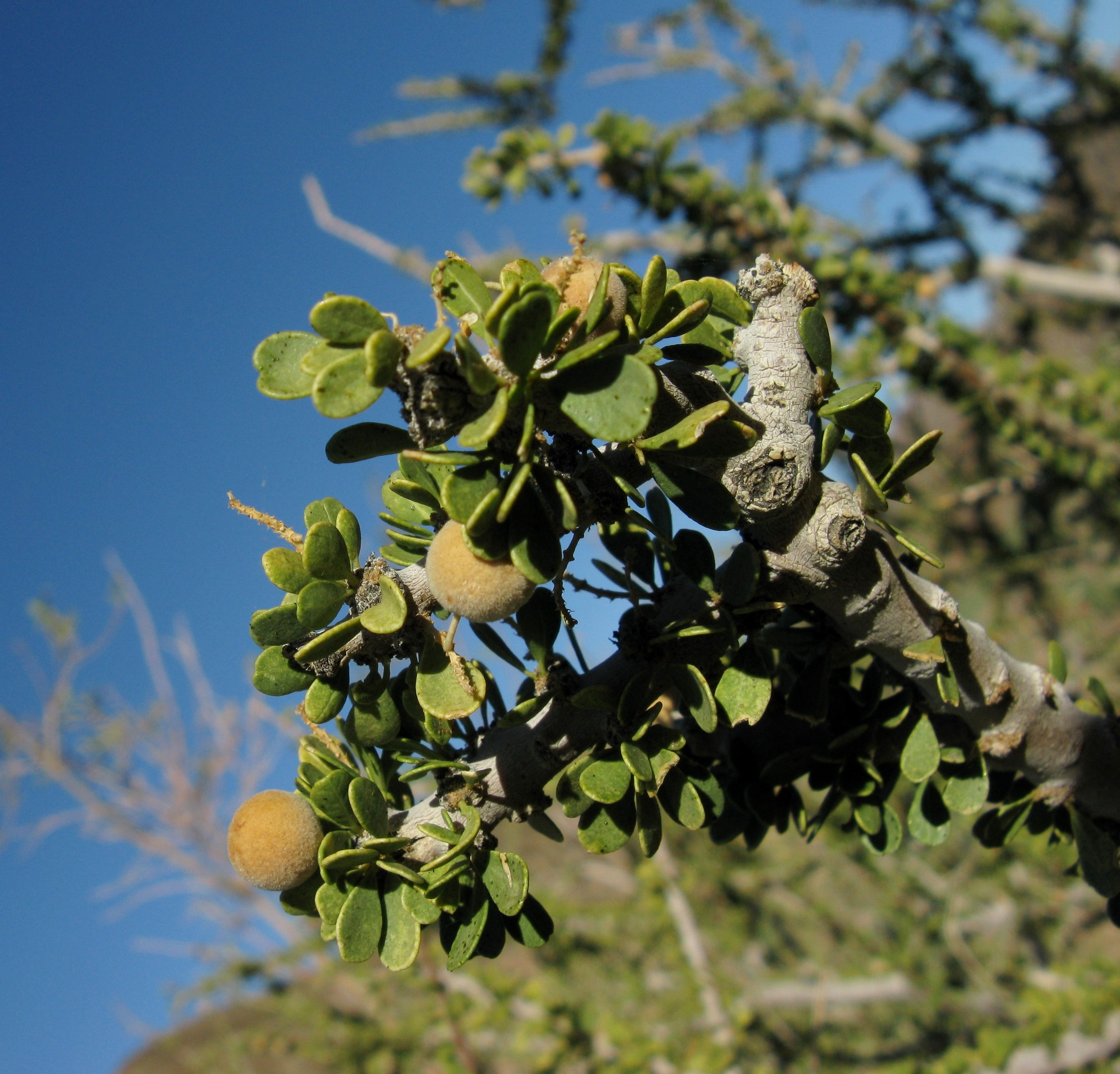 Boscia foetida ripe frouit